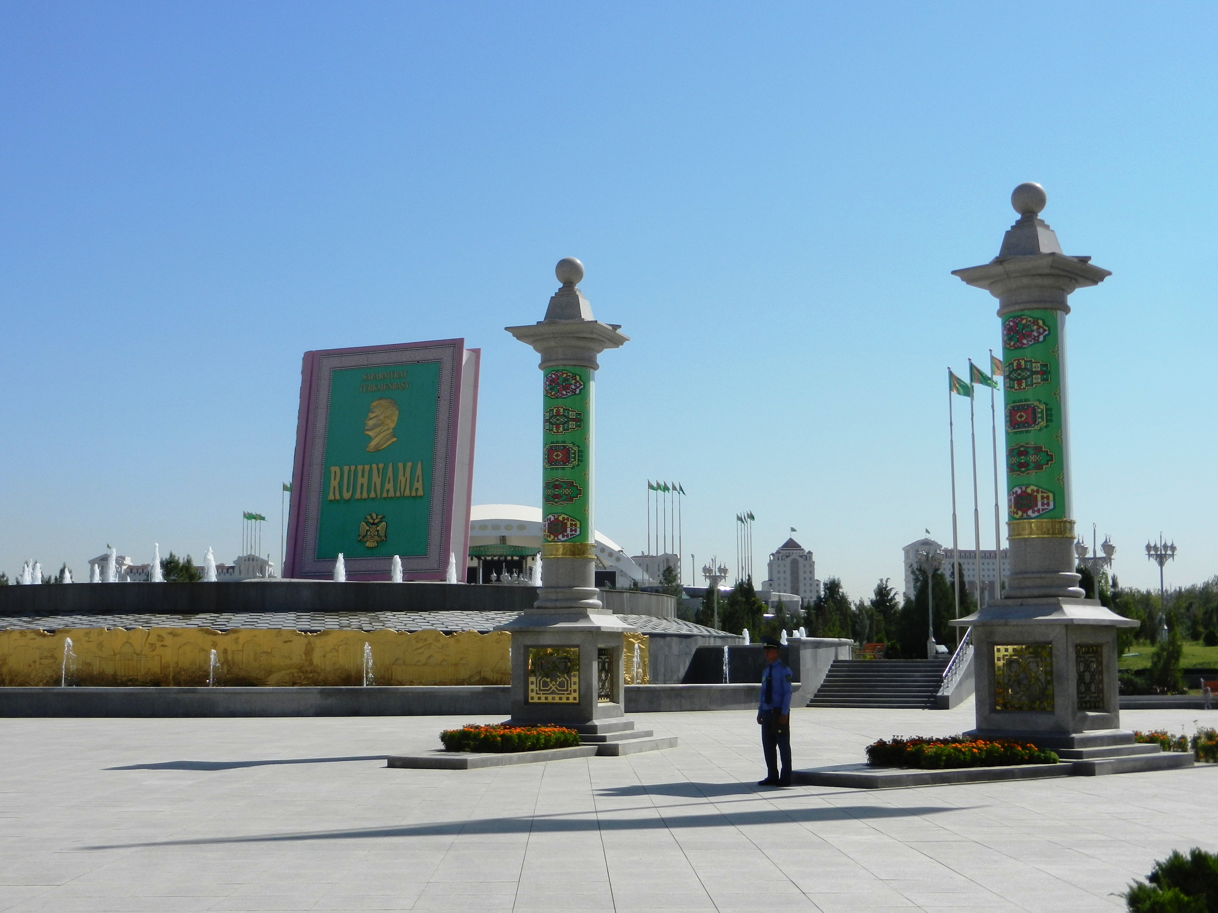 Ashgabat - town